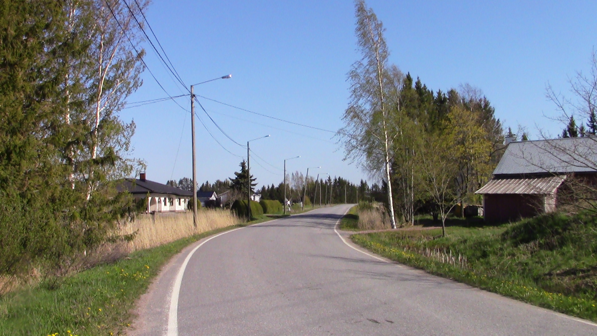 Pinomäentie road (local road 12871) at Pinomäki village in Pori, Finland. The picture's taken from Linjatie road crossing.